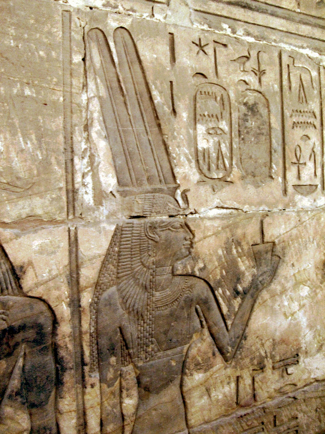 God's Wife of Amun, Amenirdis I making an offering - Chapels of god's Wifes of Amun at Medinet Habu - 25th dynasty of Egypt